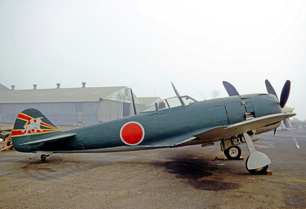 Nakajima Ki-84 Hayate N3385G wearing Japanese Air Force markings at Ontario Airport California in 1970.